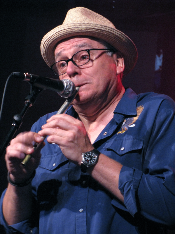 Geffrey Kelly playing the tin flute with Spirit of the West in Calgary at Flames Central.